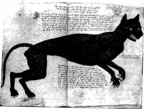 Agnes Bowker (born 1540) was a British domestic servant and the alleged mother of a cat in 1569. The original picture was by Anthony Anderson and the cat was red